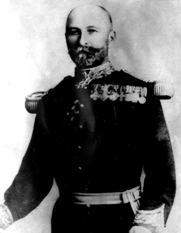 Old photo of General Gheorghe Teleman (1838-1913)